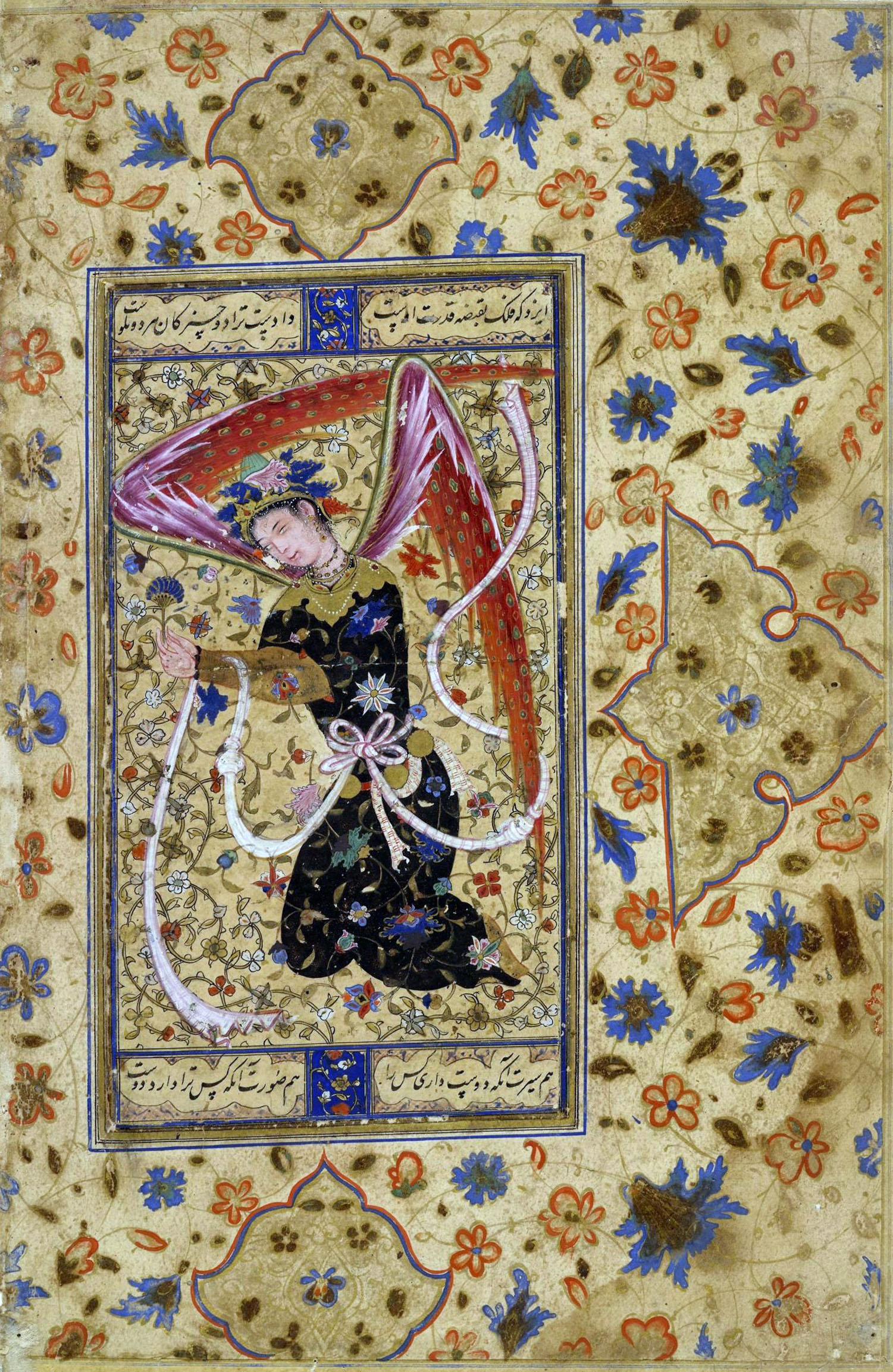 Kneeling Angel from Bukhara School c. 1555-1560. British Museum